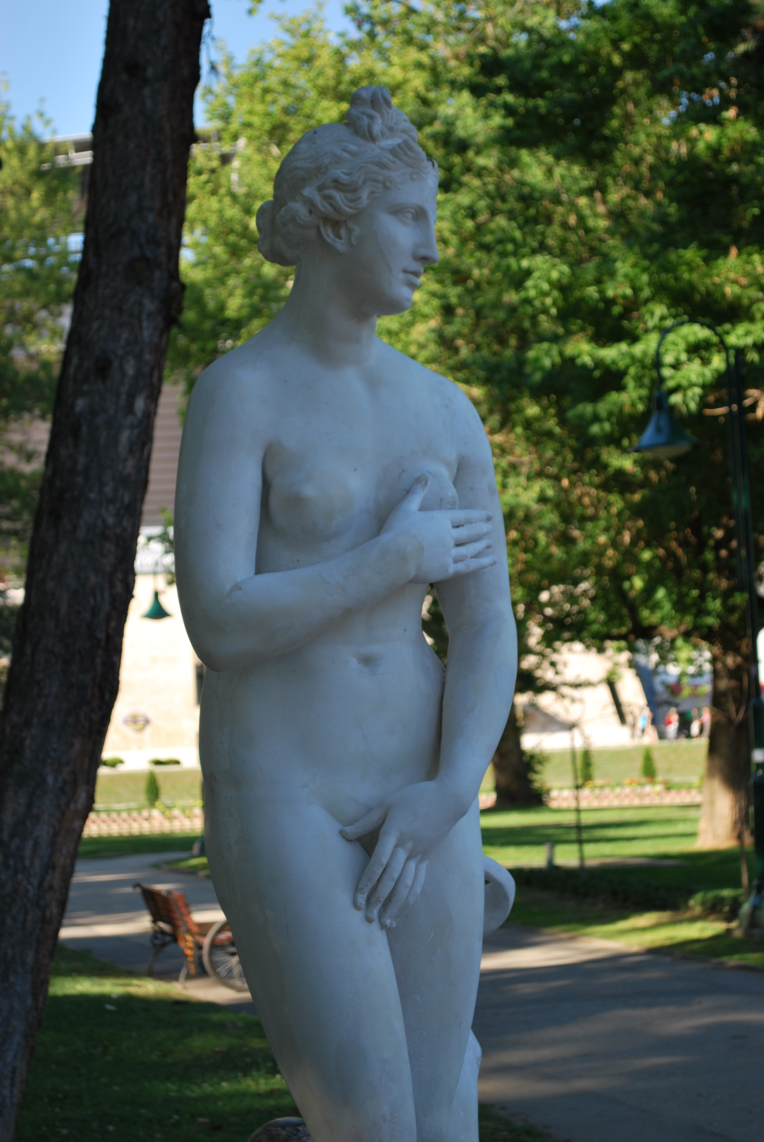 Venus pudica, a statue in Skopje City Park, Macedonia